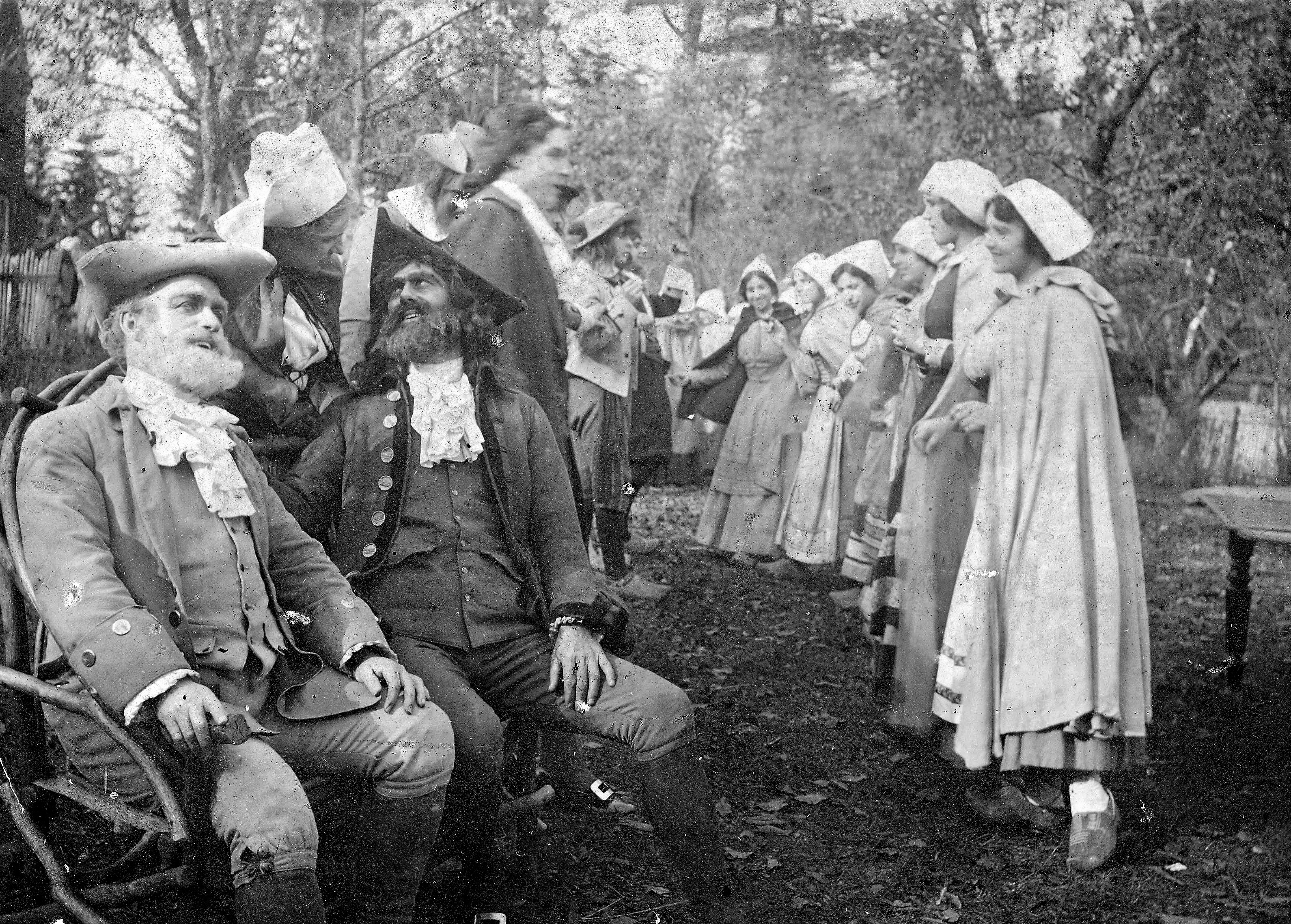 Scene from Evangeline (movie) 1913, garden of Billman Residence, 'Melvillewood', Armdale, later called 17 Herring Cove Rd. Halifax, Nova Scotia, Canada. Evangeline was a film based on Henry Wadsworth Longfellow's epic poem of the same name. It was both the first Canadian feature-length motion-picture and the very first film shot on location in Canada. Evangeline was produced by the Canadian Bioscope Company, founded in 1912 by H.H.B. Holland, with its headquarters at 108-118 Pleasant Street (now the Foundry Building on Barrington Street, near Inglis). The company went on to produce seven widely varied films for the Canadian market – none of which has survived; with the outbreak of World War I, Canadian Bioscope went out of business.